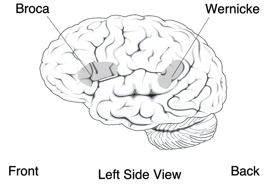 Broca's and Wernicke's area